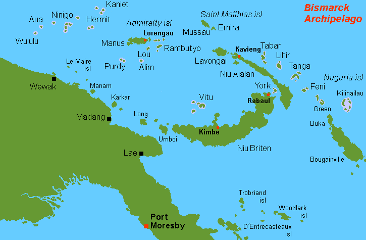 Map (rough) of Bismarck Archipelago, Papua New Guinea, own work composed from various mapreferences